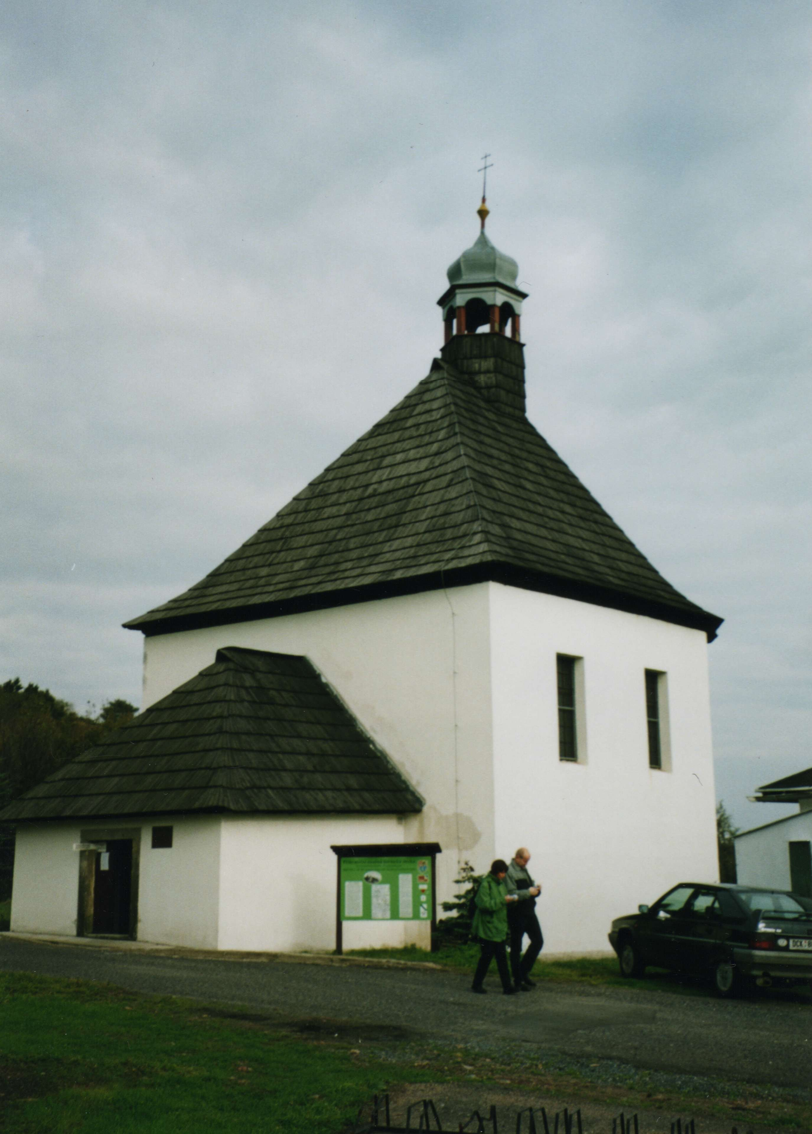 Baroque Saint Wolfgang chapel at Komáří vížka (Mückentürmchen) from the end of 17th century. Krupka (Grauppen), Teplice District, Ústí nad Labem Region, Czech Republic